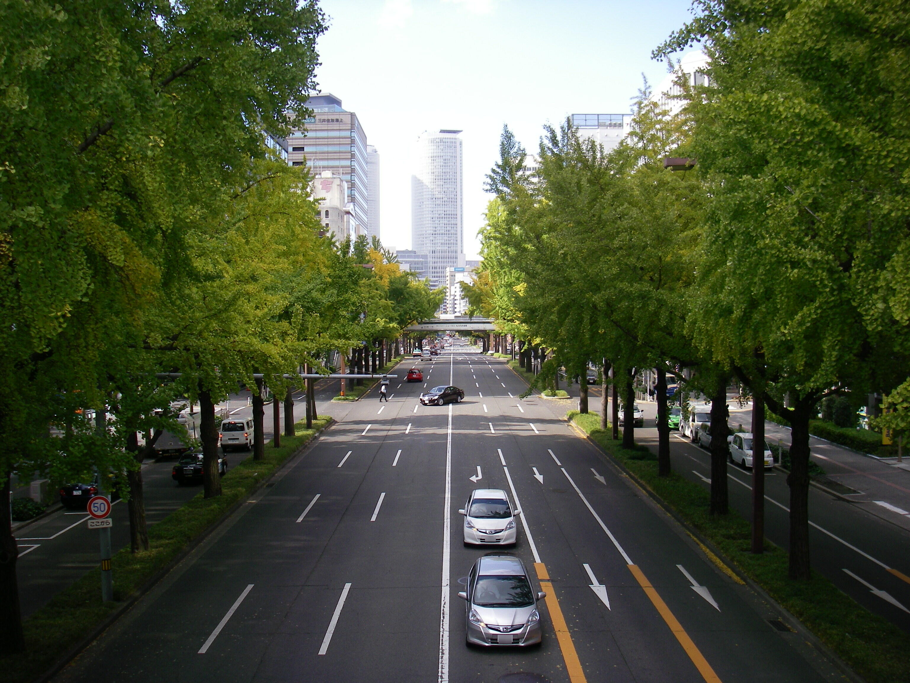 Ginkgo trees along the Sakura-dori avenue in Nagoya City, Aichi Prefecture, Japan